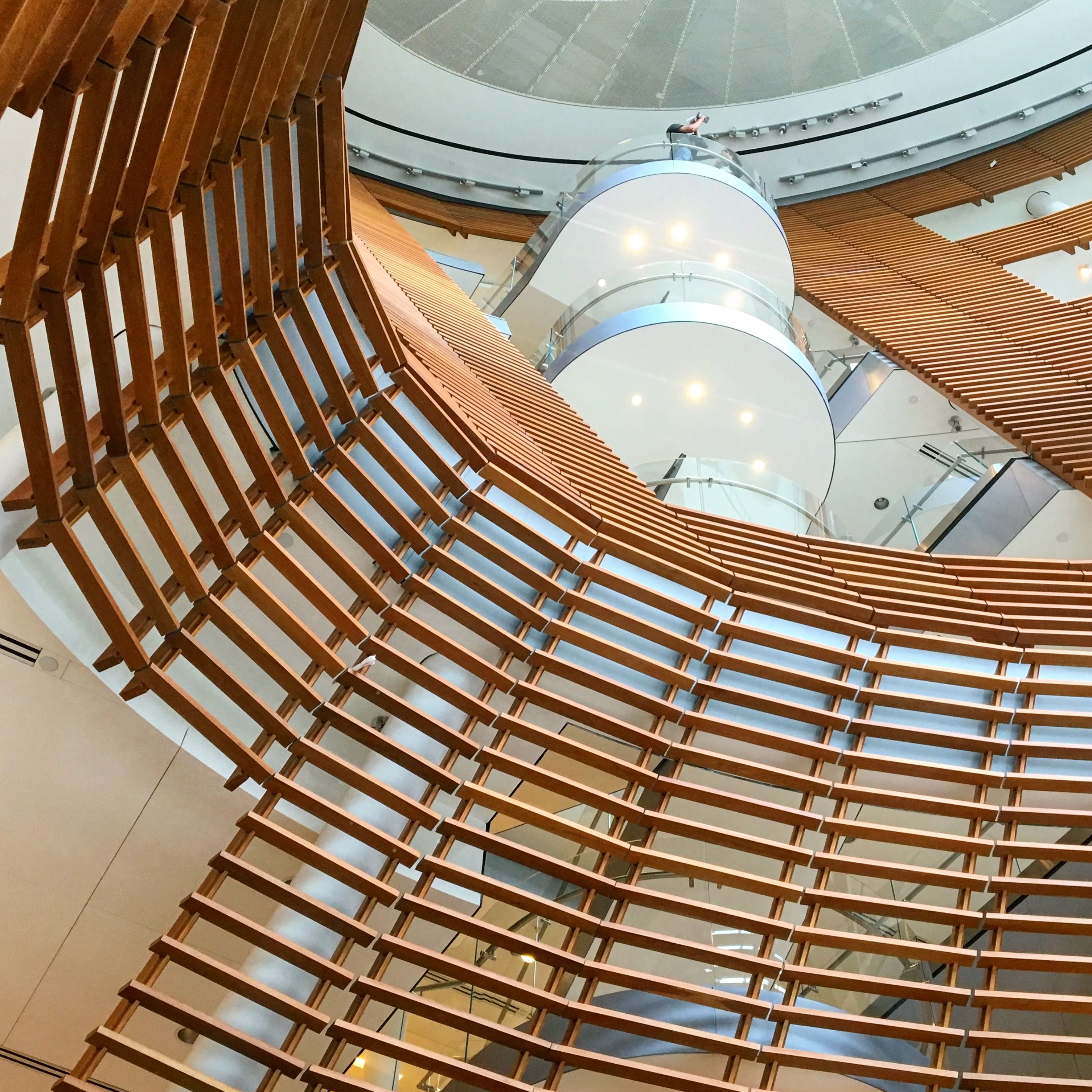 Spiral staircase in the Collaborative Research Center at the Rockefeller University Site: The Rockefeller University